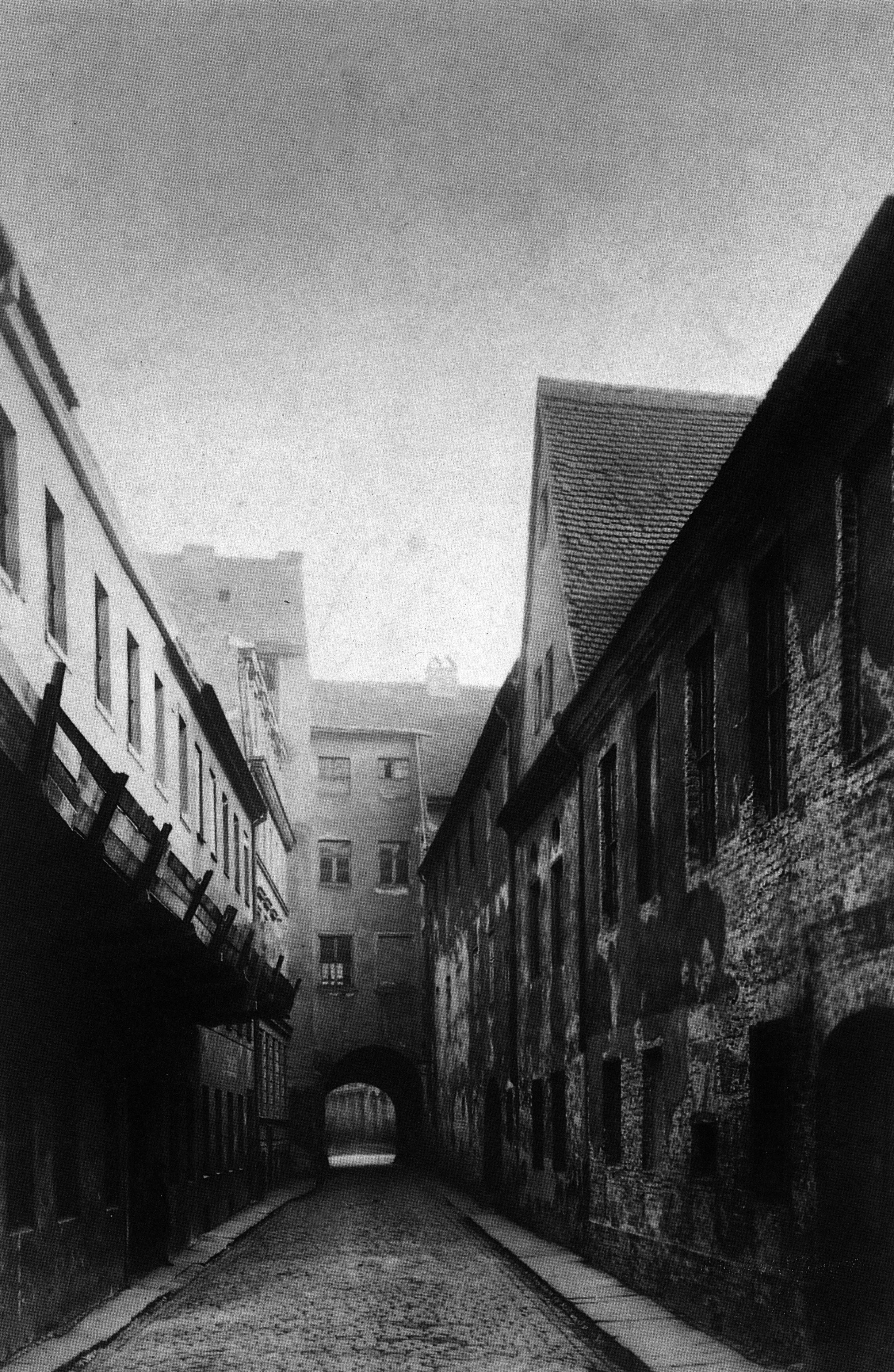 Kleine Burgstraße (now Karl-Liebknecht-Straße) between Burgstraße and Heiligegeiststraße in Old Berlin. At this place, there is now the DomAquarée on the left and Marx-Engels-Forum on the right.